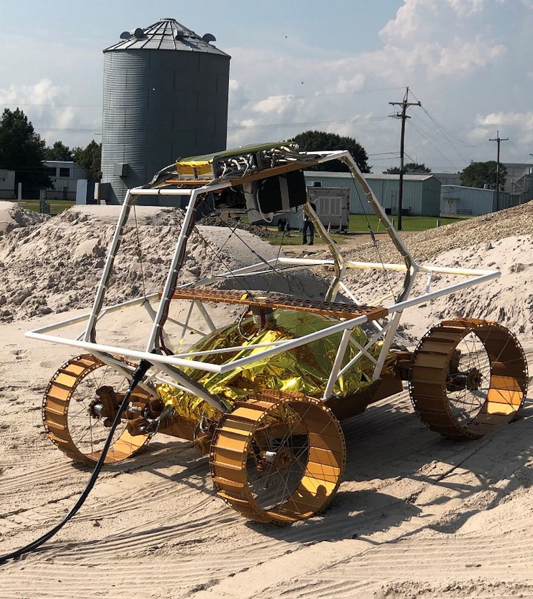 A VIPER mobility testbed, an engineering model created to evaluate the rover’s mobility system. The testbed includes mobility units, computing and motor controllers. Testing involves evaluating performance of the rover as it drives over various slopes, textures and soils that simulate the lunar environment.